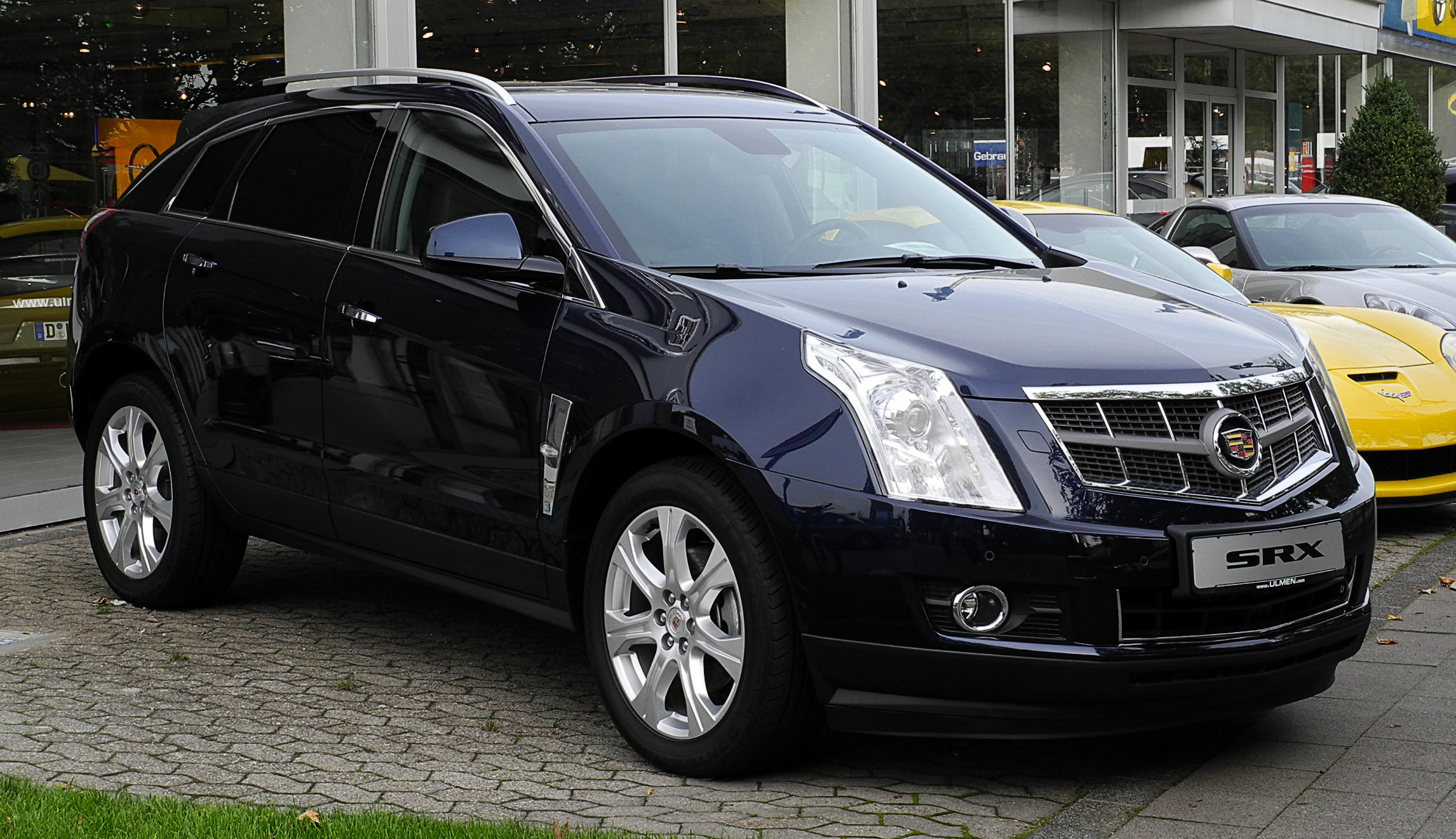 Cadillac SRX 3.0 V6 AWD Sport Luxury (II)